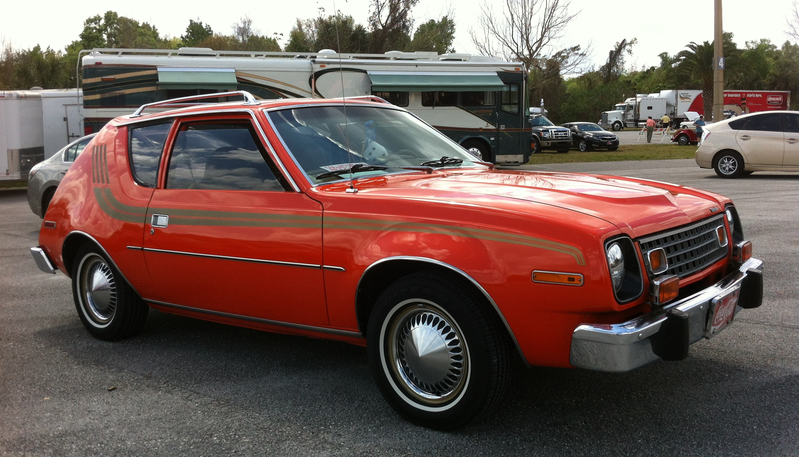 1977 AMC Gremlin base model, a subcompact automobile made by the American Motors Corporation. Front right view, this car has a 232 CID I6 engine and automatic transmission. Picture taken at the 2013 Antique Automobile Club of America (AACA) meet in Lakeland, Florida, USA.